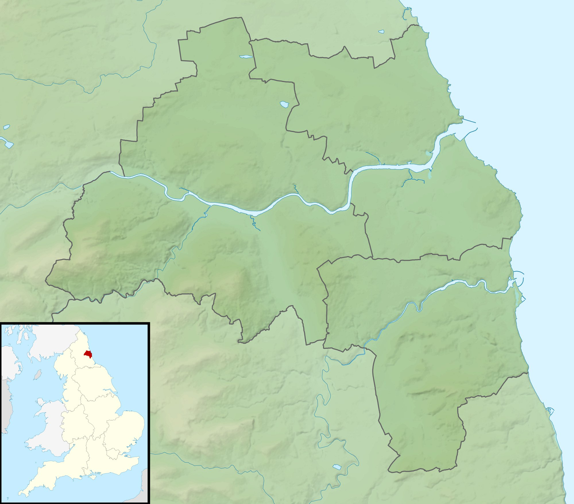 Relief map of Tyne and Wear, UK. Equirectangular map projection on WGS 84 datum, with N/S stretched 170% Geographic limits: West: 1.90W East: 1.30W North: 55.09N South: 54.78N